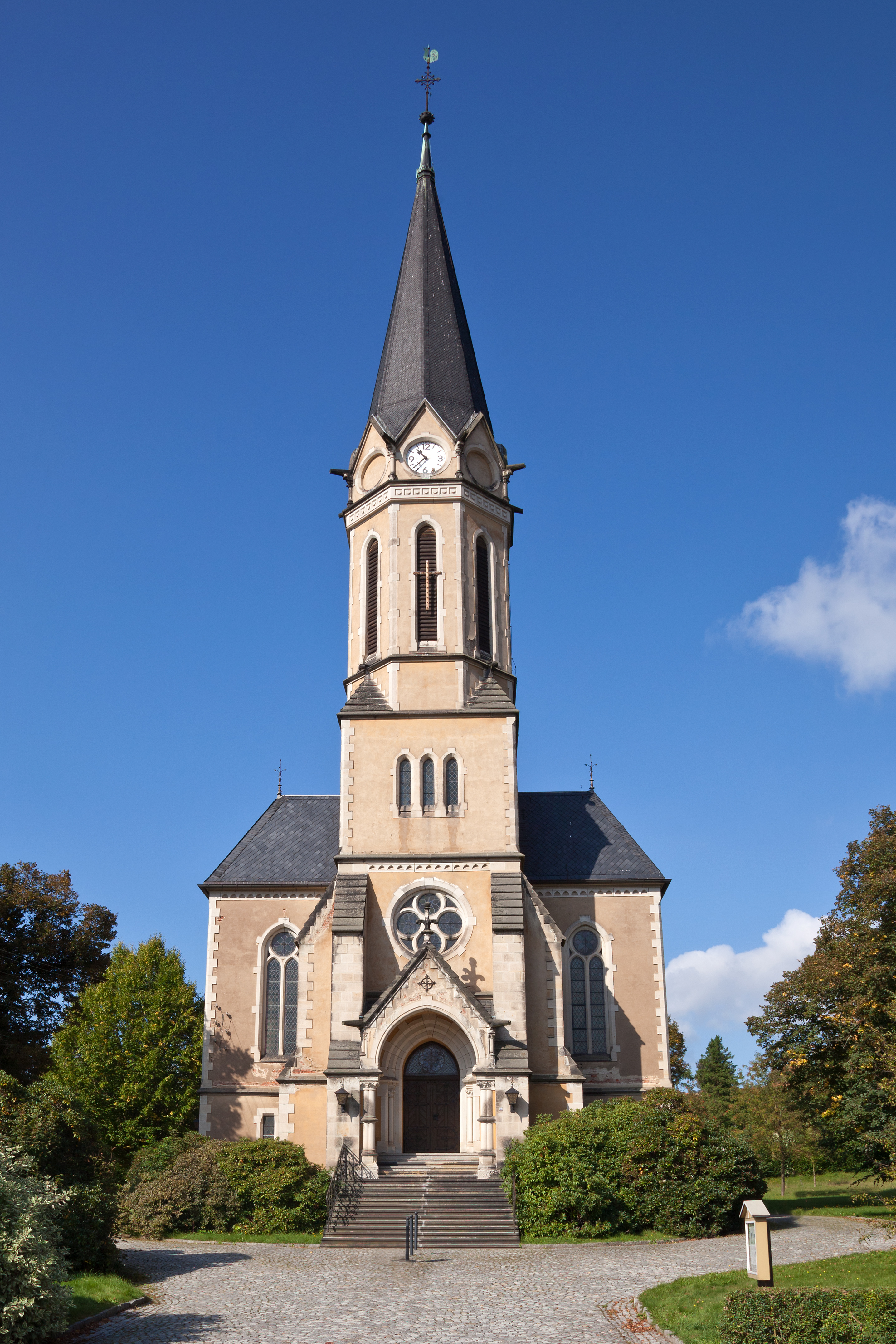 Erdmannsdorf (Augustusburg), church